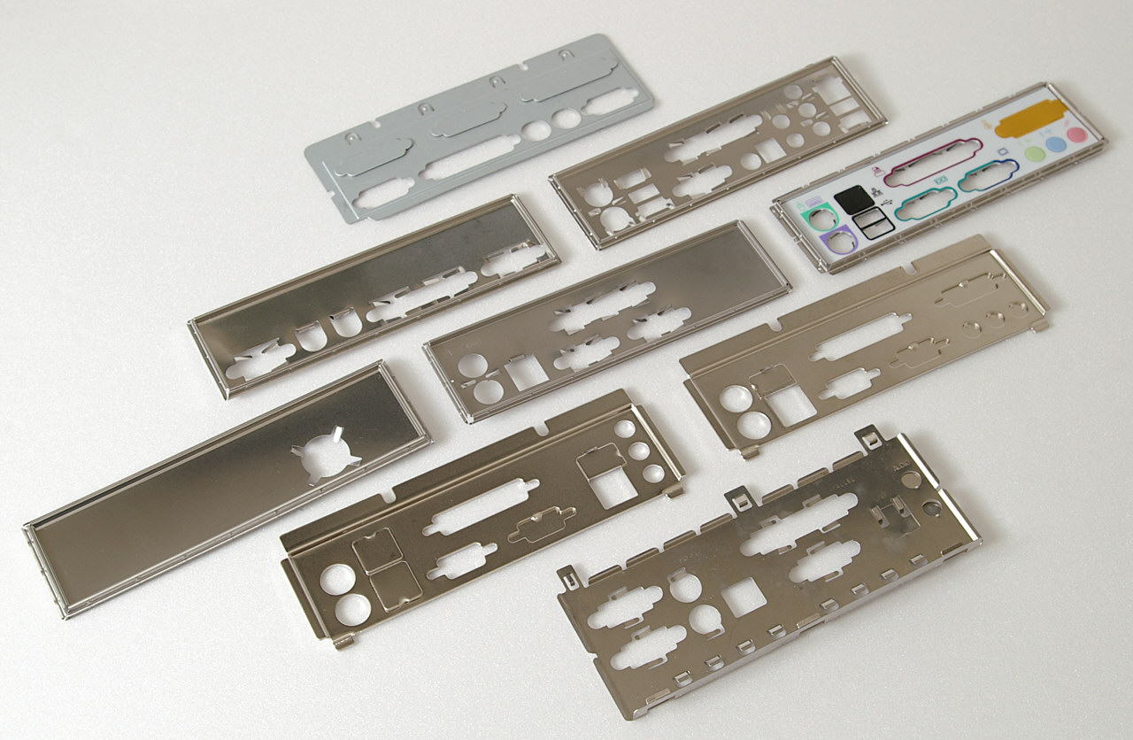 Some ATX IO shields with different layouts